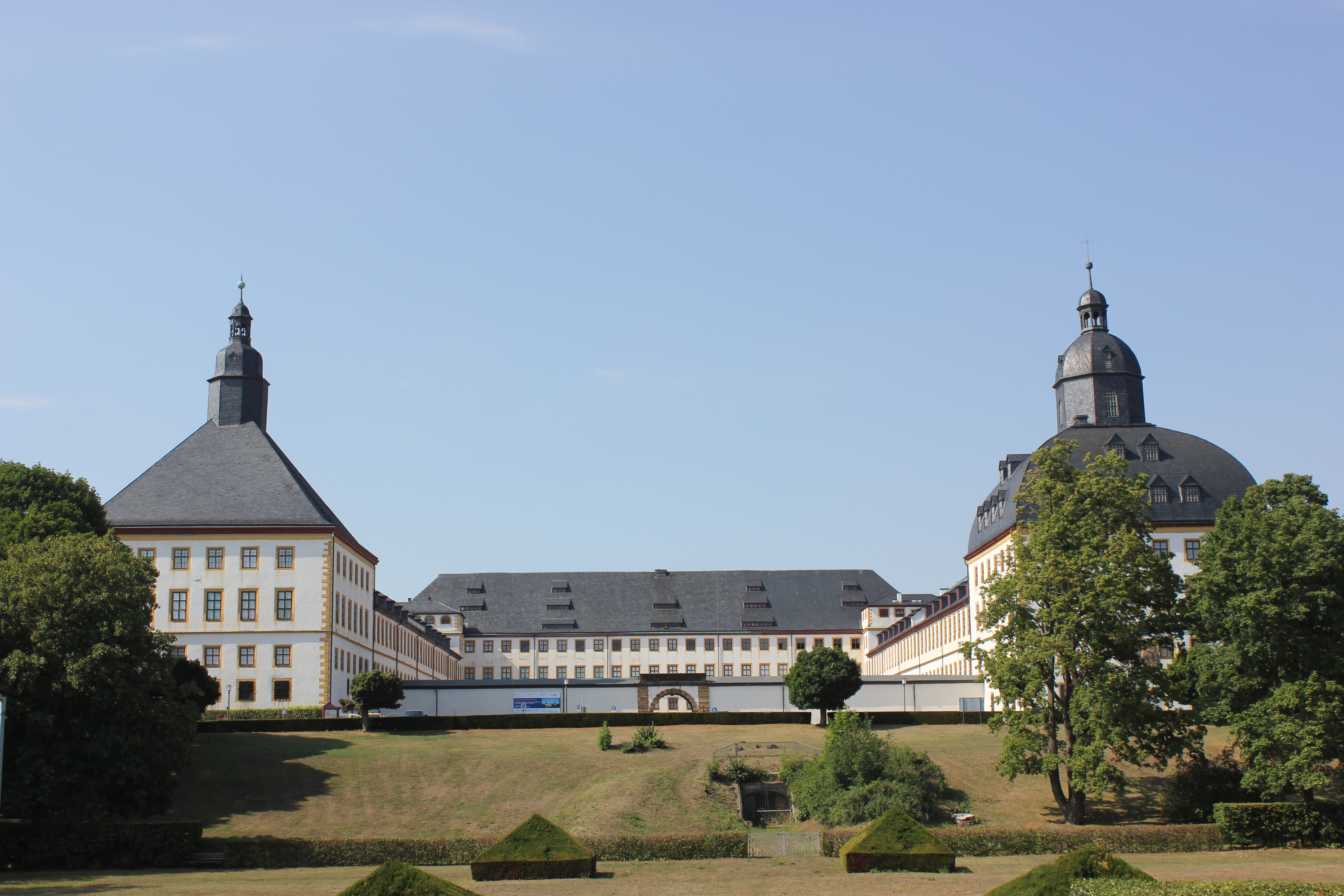 Gotha - Friedenstein castle